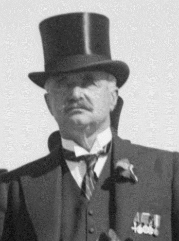 Palestine disturbances 1936. Earl Peel (cropped)